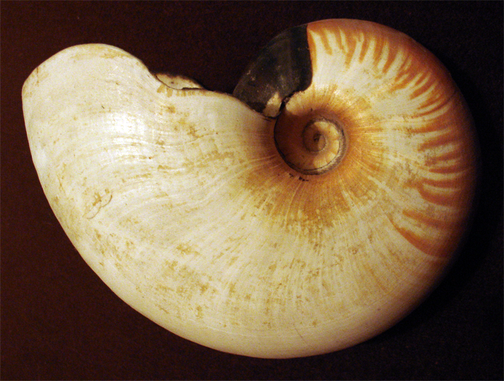 Allonautilus scrobiculatus Image taken by User:Mgiganteus1